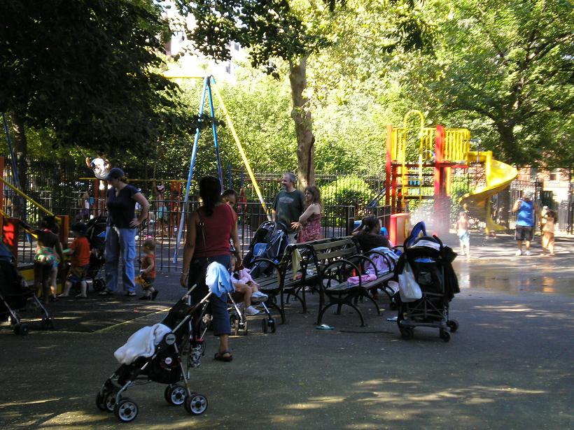 Children playing in Tompkins Square Park, New York City.